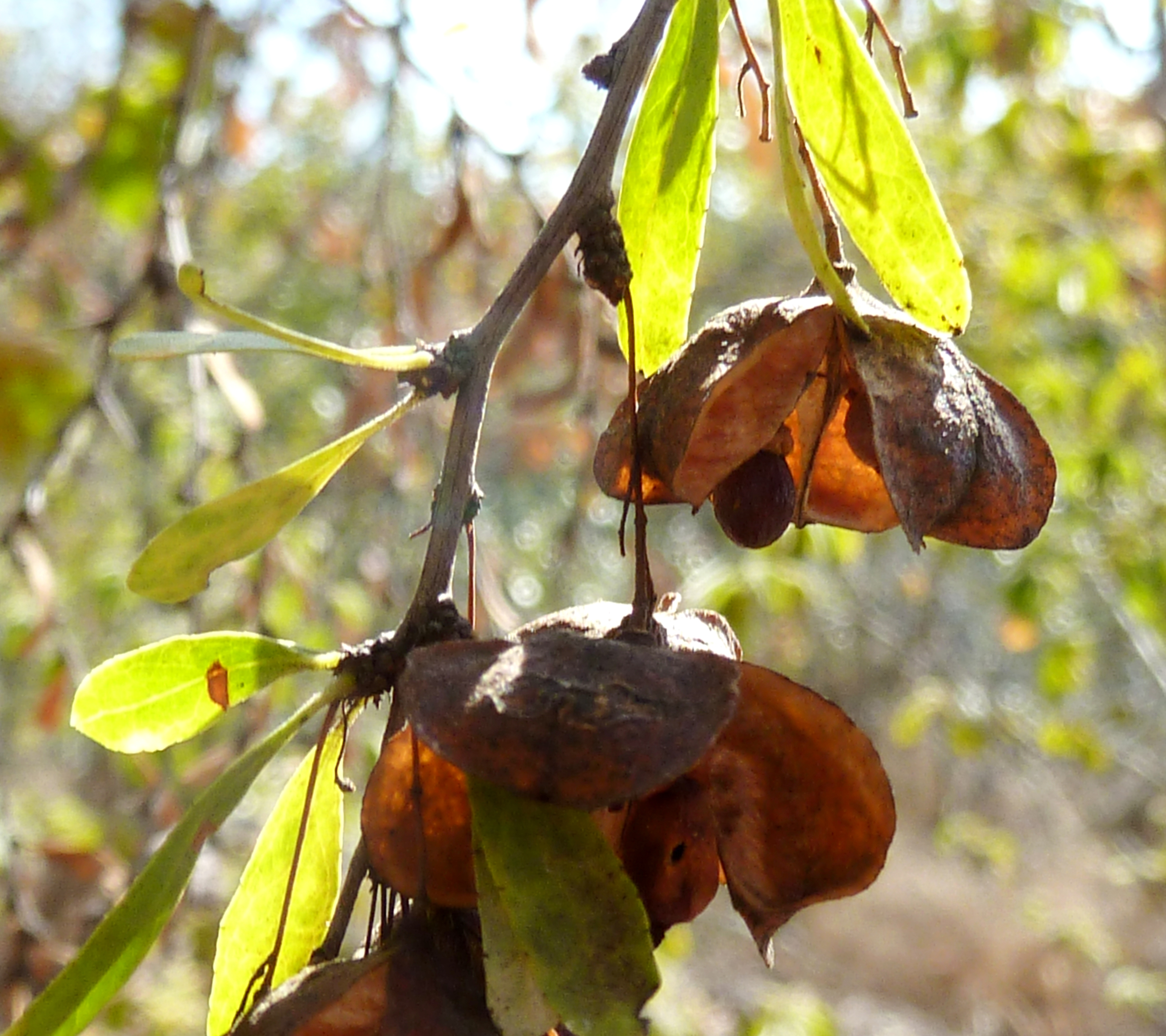 Old, dry fruit of a Bell spike-thorn in Eugene Marais Park, Pretoria, with visible seed and arillate structure